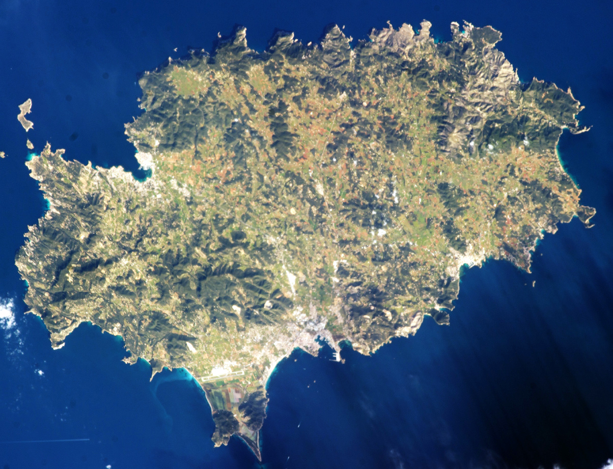 The island of Ibiza, by astronaut photograph ISS035-E-7431 was acquired on March 22, 2013, with a Nikon D3S digital camera using a 400 millimeter lens, and is provided by the ISS Crew Earth Observations experiment and Image Science & Analysis Laboratory, Johnson Space Center. The image was taken by the Expedition 35 crew. It has been cropped and enhanced to improve contrast, and lens artifacts have been removed. The International Space Station Program supports the laboratory as part of the ISS National Lab to help astronauts take pictures of Earth that will be of the greatest value to scientists and the public, and to make those images freely available on the Internet. Additional images taken by astronauts and cosmonauts can be viewed at the NASA/JSC Gateway to Astronaut Photography of Earth.